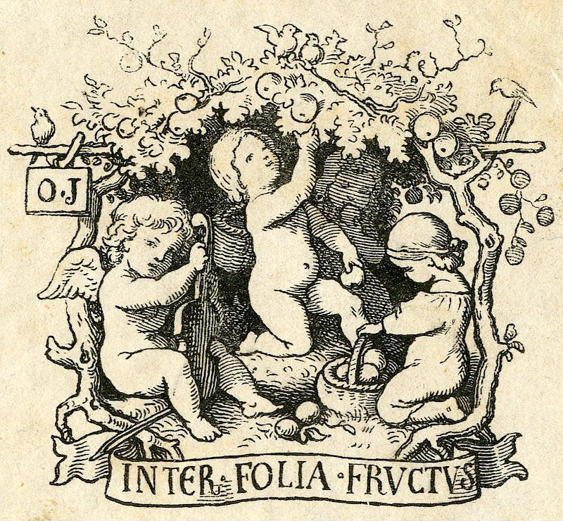 INTER FOLIA FRUCTUS Otto Jahn's Ex libris